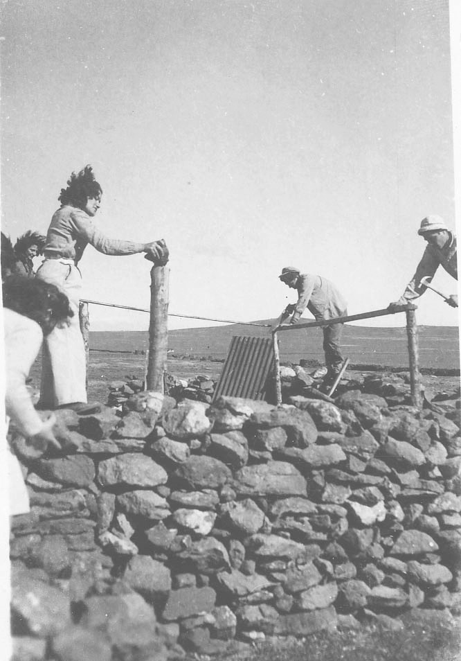 Team members Shahar early Htisbotm.